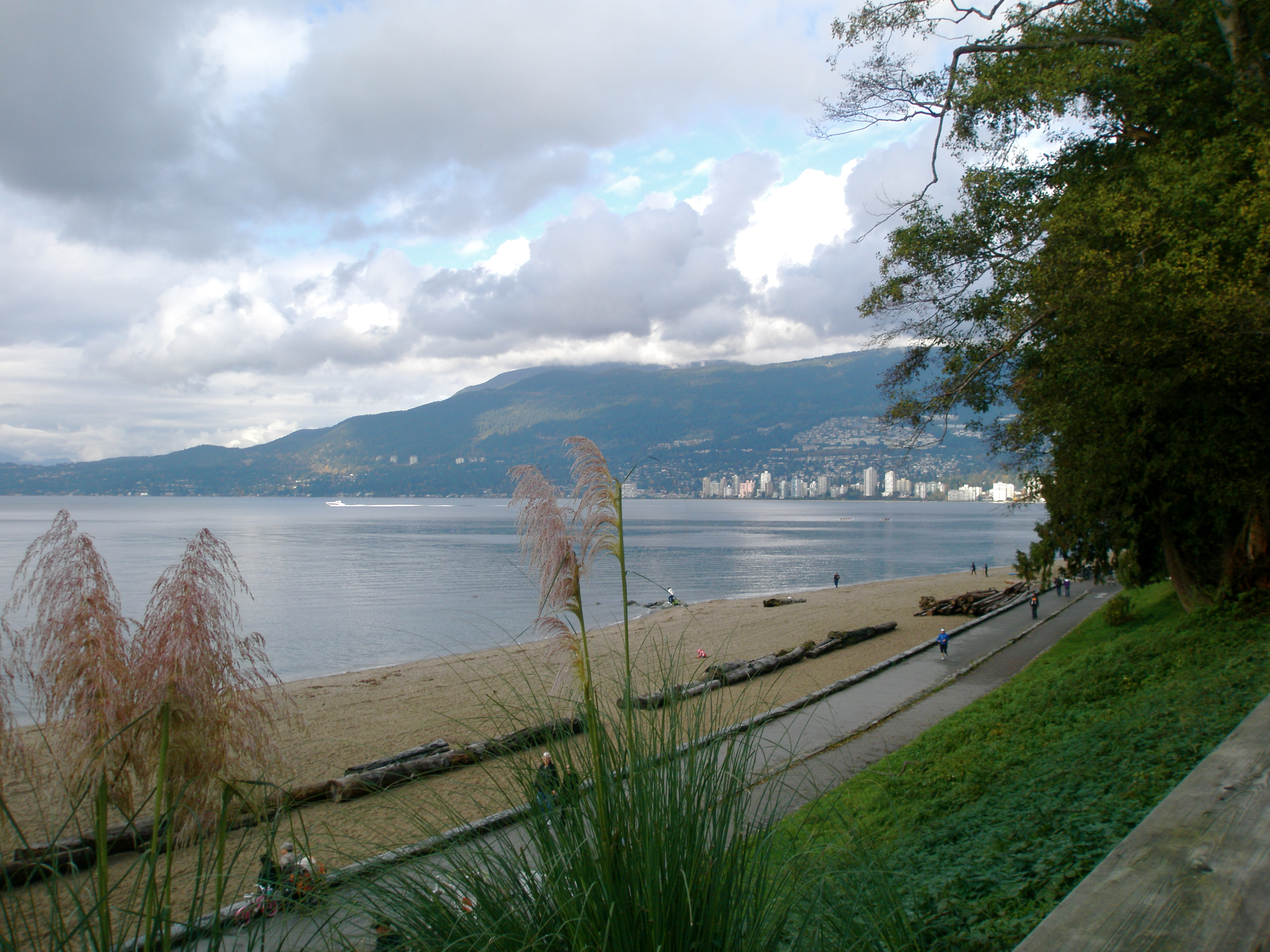 3rd Beach, Vancouver, BC